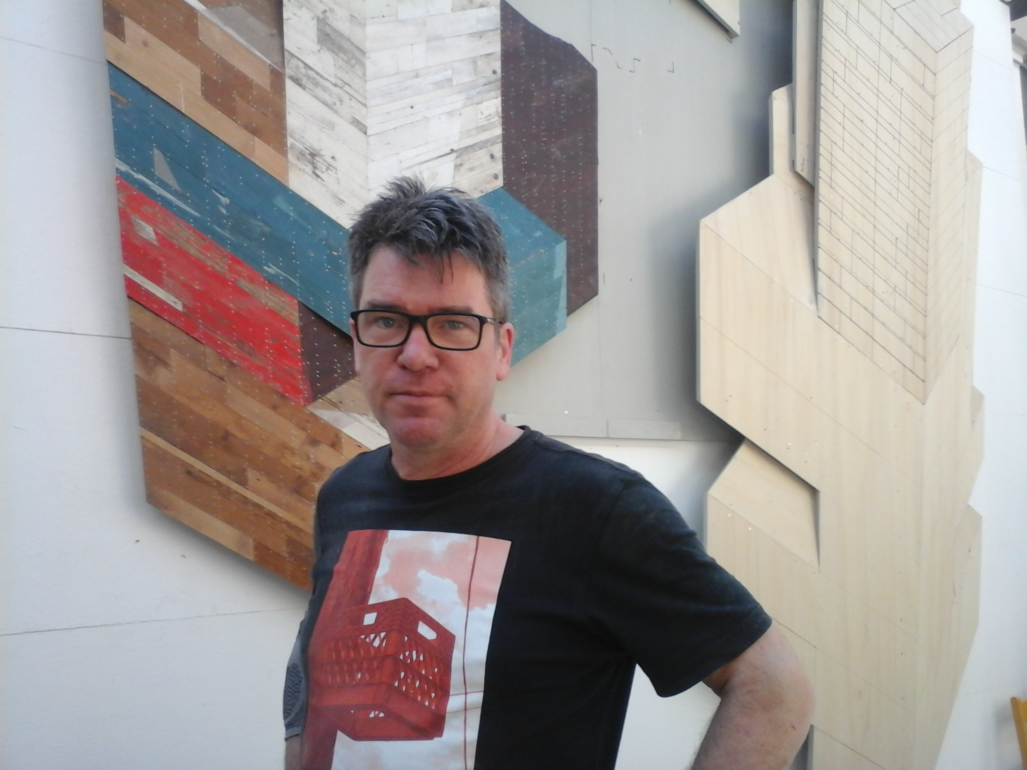 Ron van der Ende, 2018